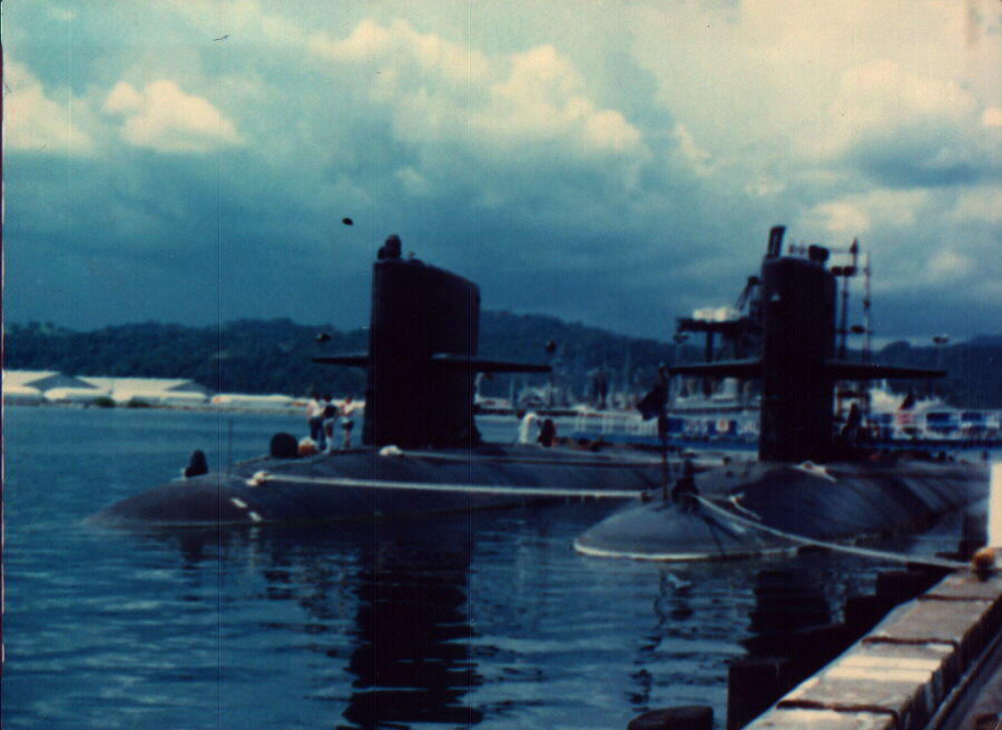 639 in Subic Bay, Philippines